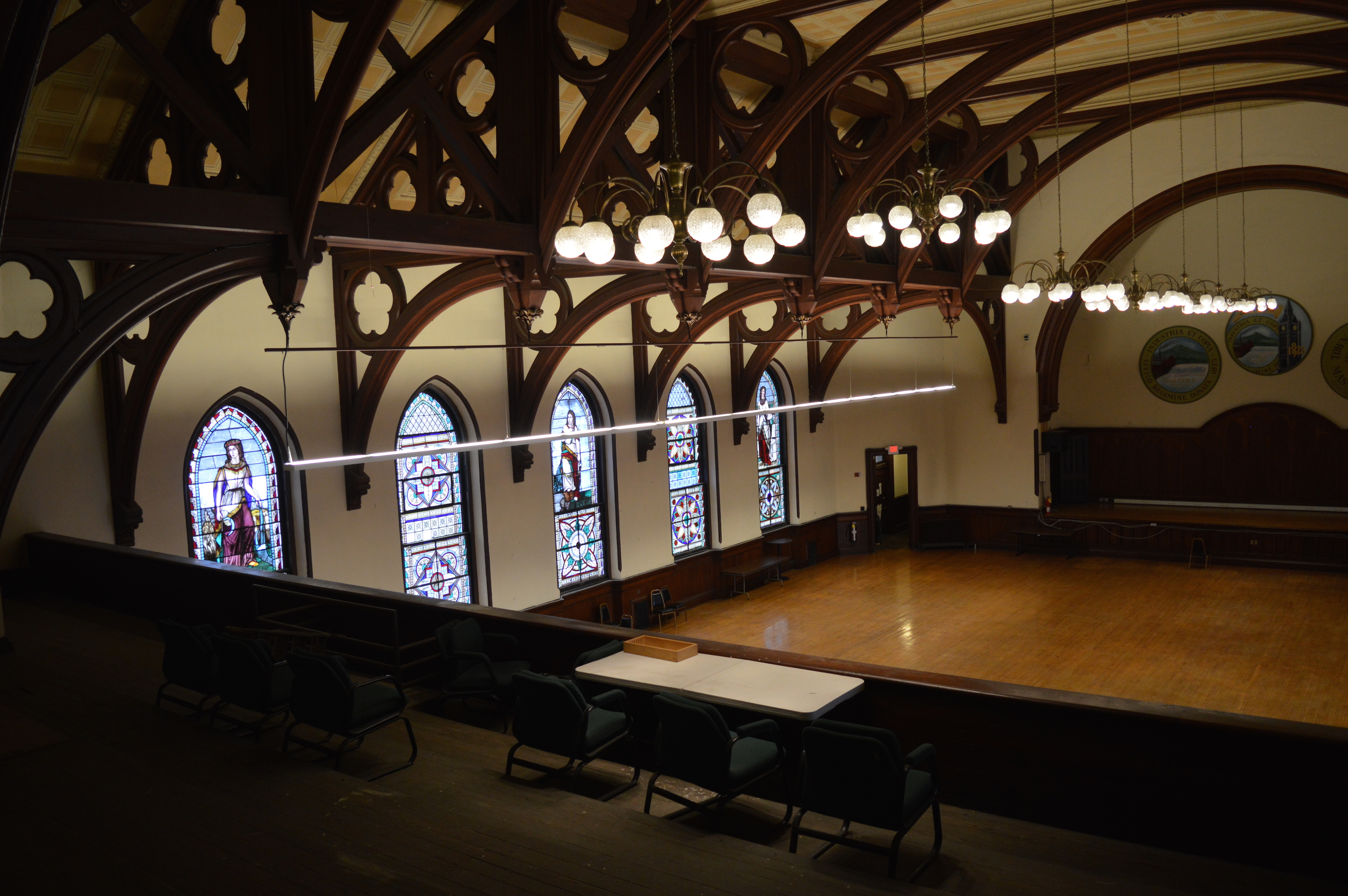 Inside of the grand ballroom of the Holyoke City Hall, showing its ornate trusswork and stained glass windows by Boston artist, Samuel West.